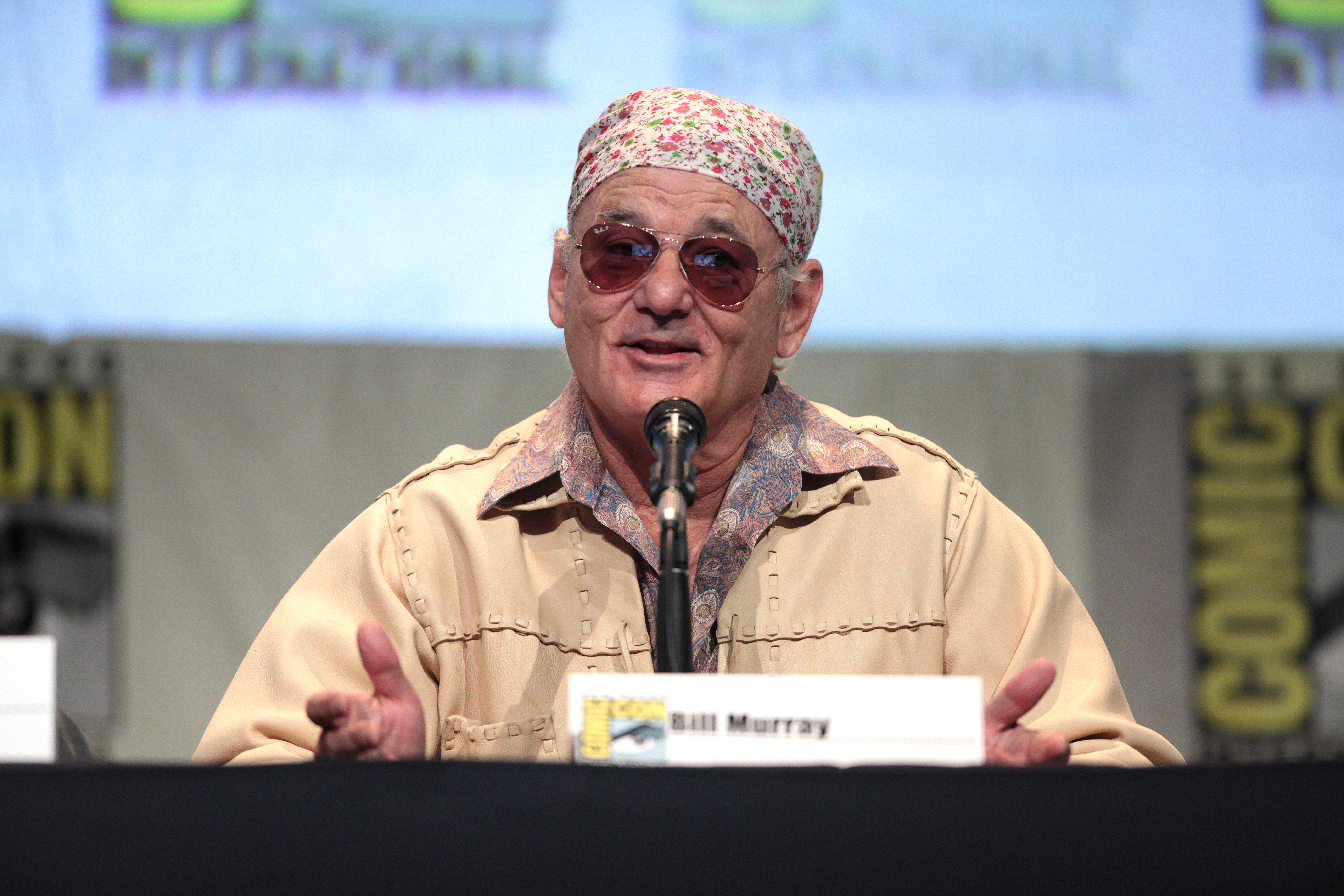 Bill Murray at the 2015 San Diego Comic Con International in San Diego, California.